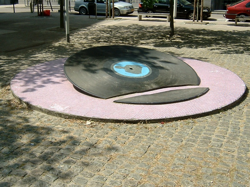 Rotterdam: Intussen verdwenen monument aan de Zandstraat te Rotterdam, voor Louis Davids, zanger van het Nederlandse lied.